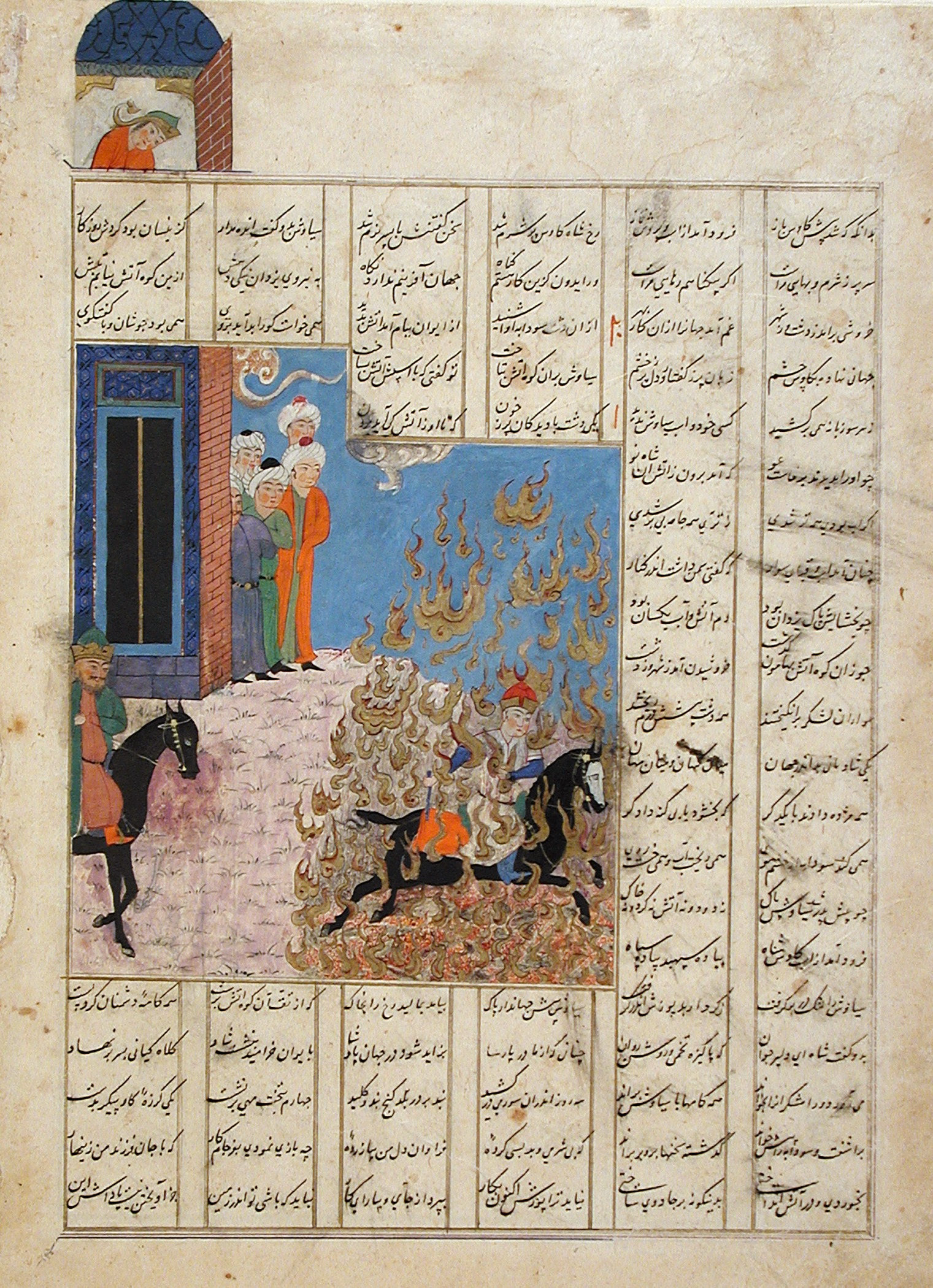 India (?), 1475-1500 Drawings; watercolors Opaque watercolor, gold, and black and red ink on paper Gift of Major and Mrs. C. C. Moseley (57.17.7) South and Southeast Asian Art